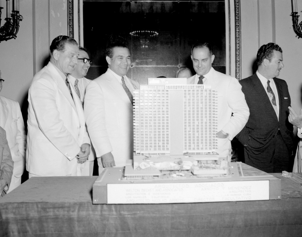 Hotel Tryp Habana Libre_Fulgencio Batista frente a la maqueta del hotel “Habana Hilton”